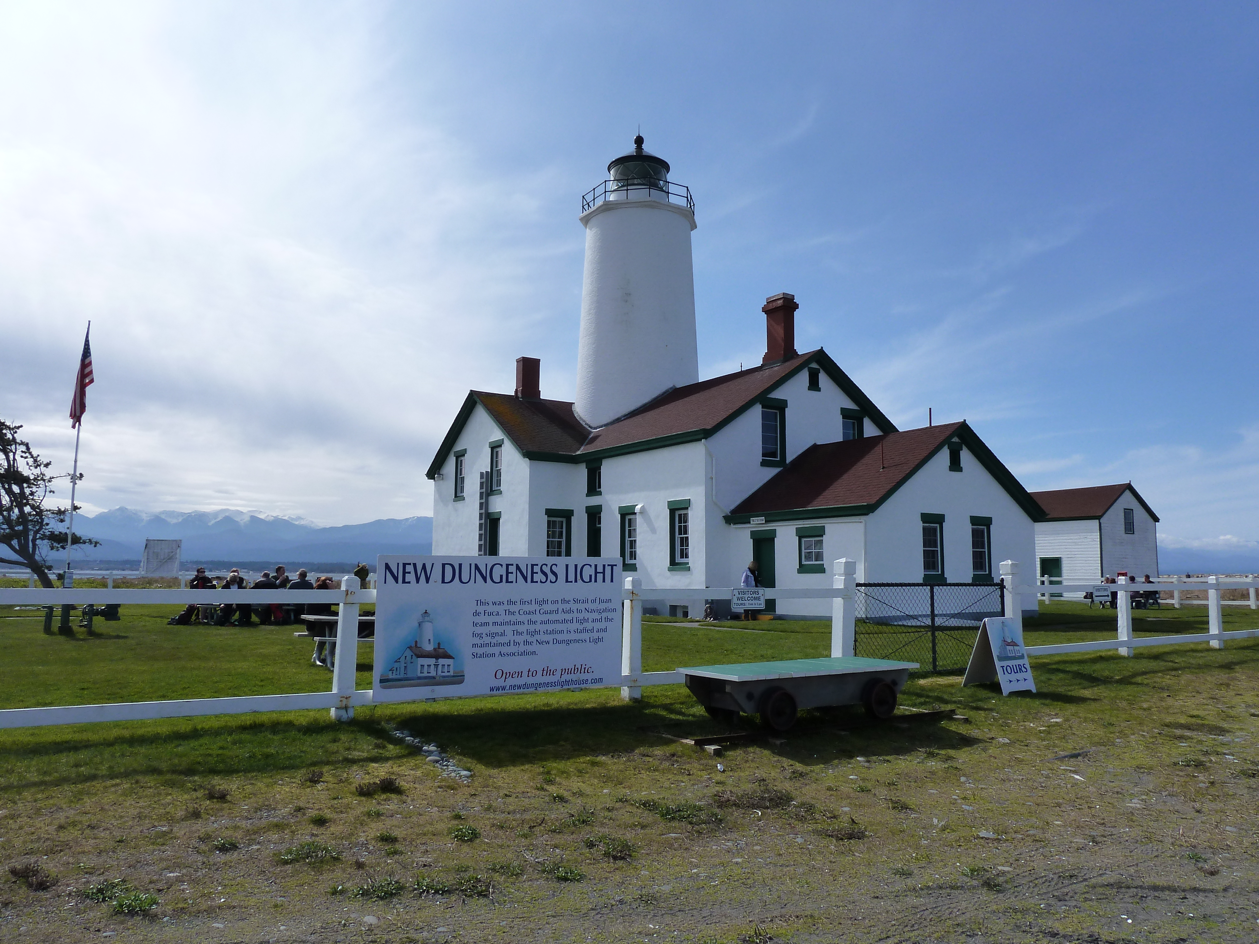 New Dungeness Light Station